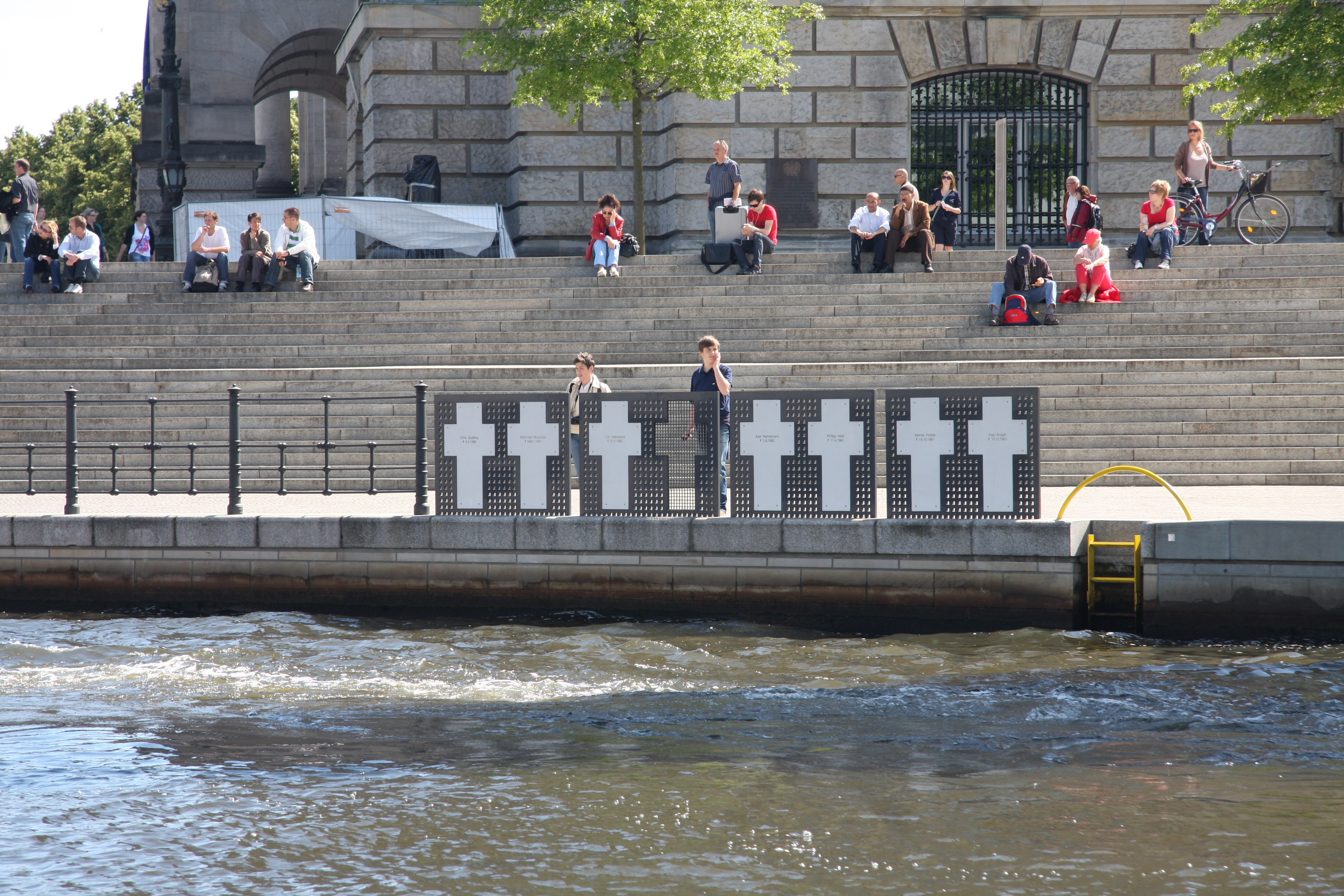 White crosses to remember the victimes of the Berlin Wall